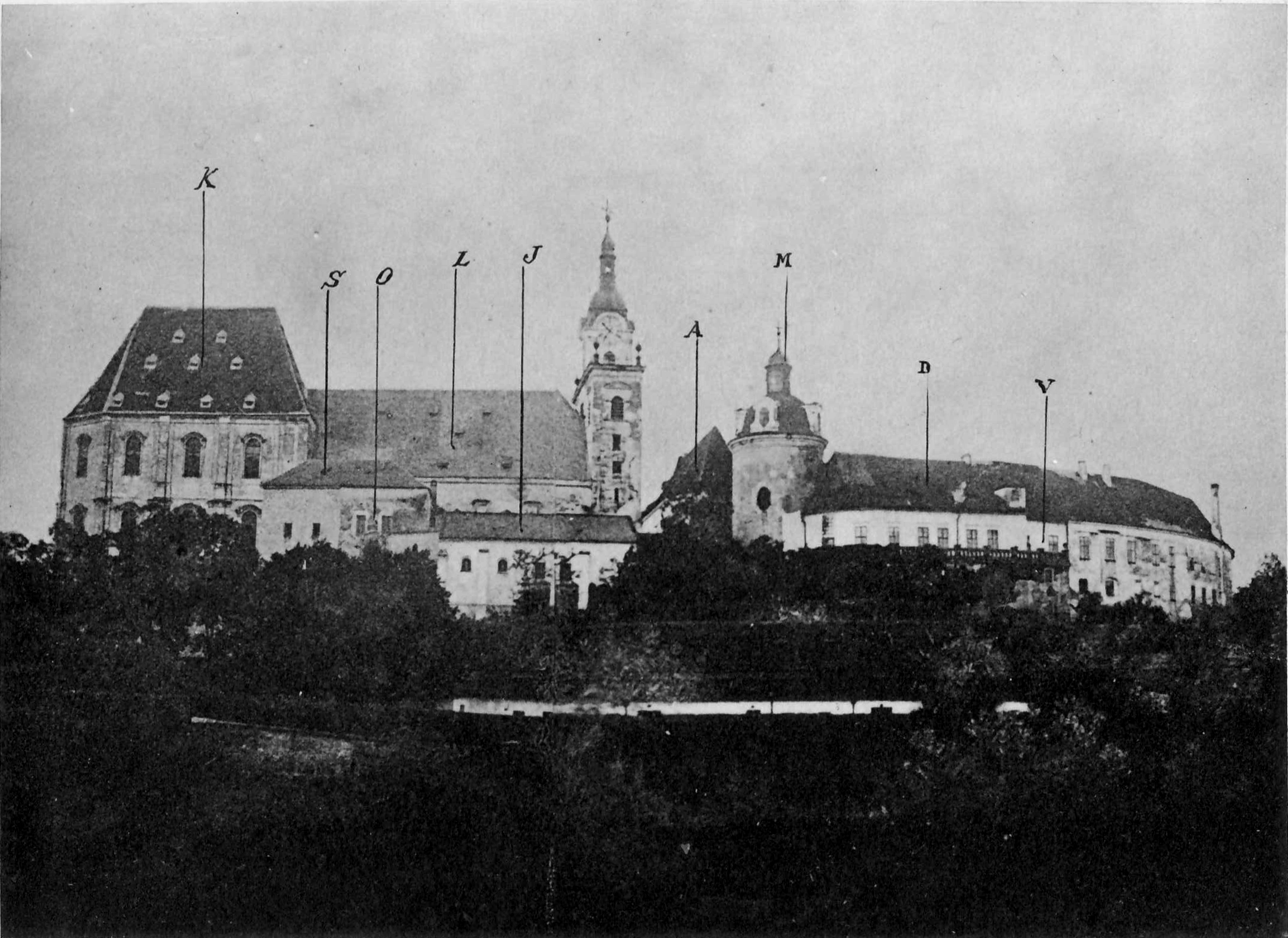 Saint Wenceslas Cathedral, Olomouc, from the north before 1884.